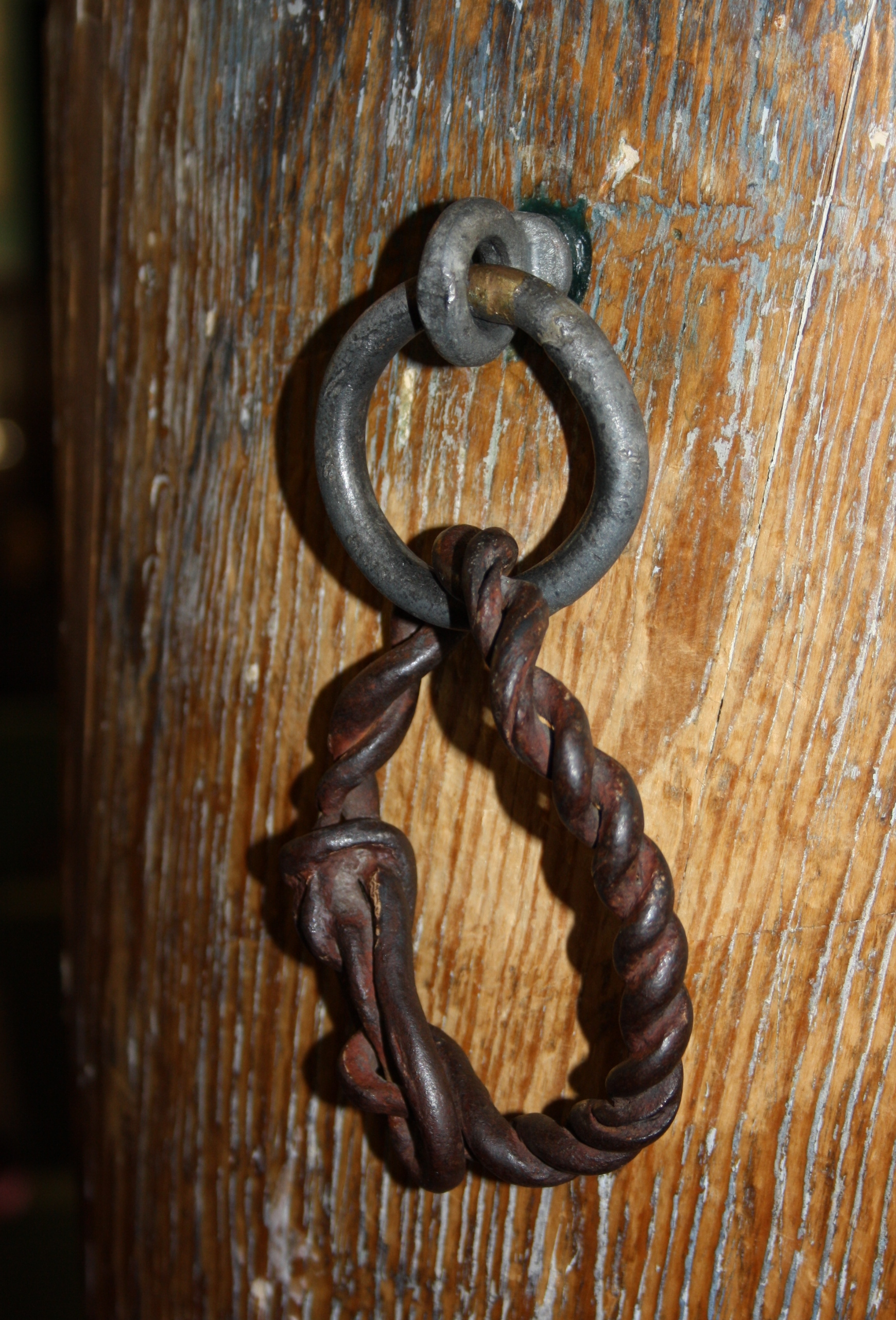 iron work